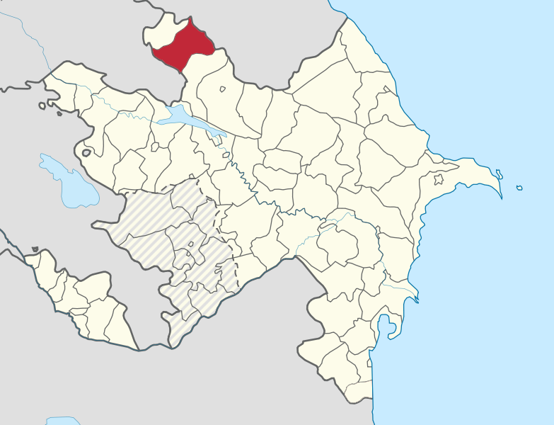 Zaqatala District Map (Azerbaijan)